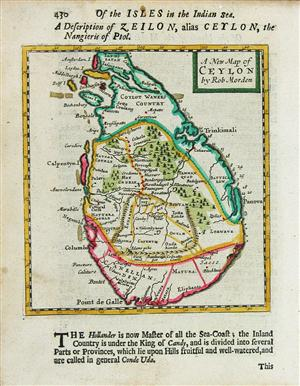 Map older than 200 years old of Tamil country Vanni Copyright expired Rob Morden map of Tamil country 17th century